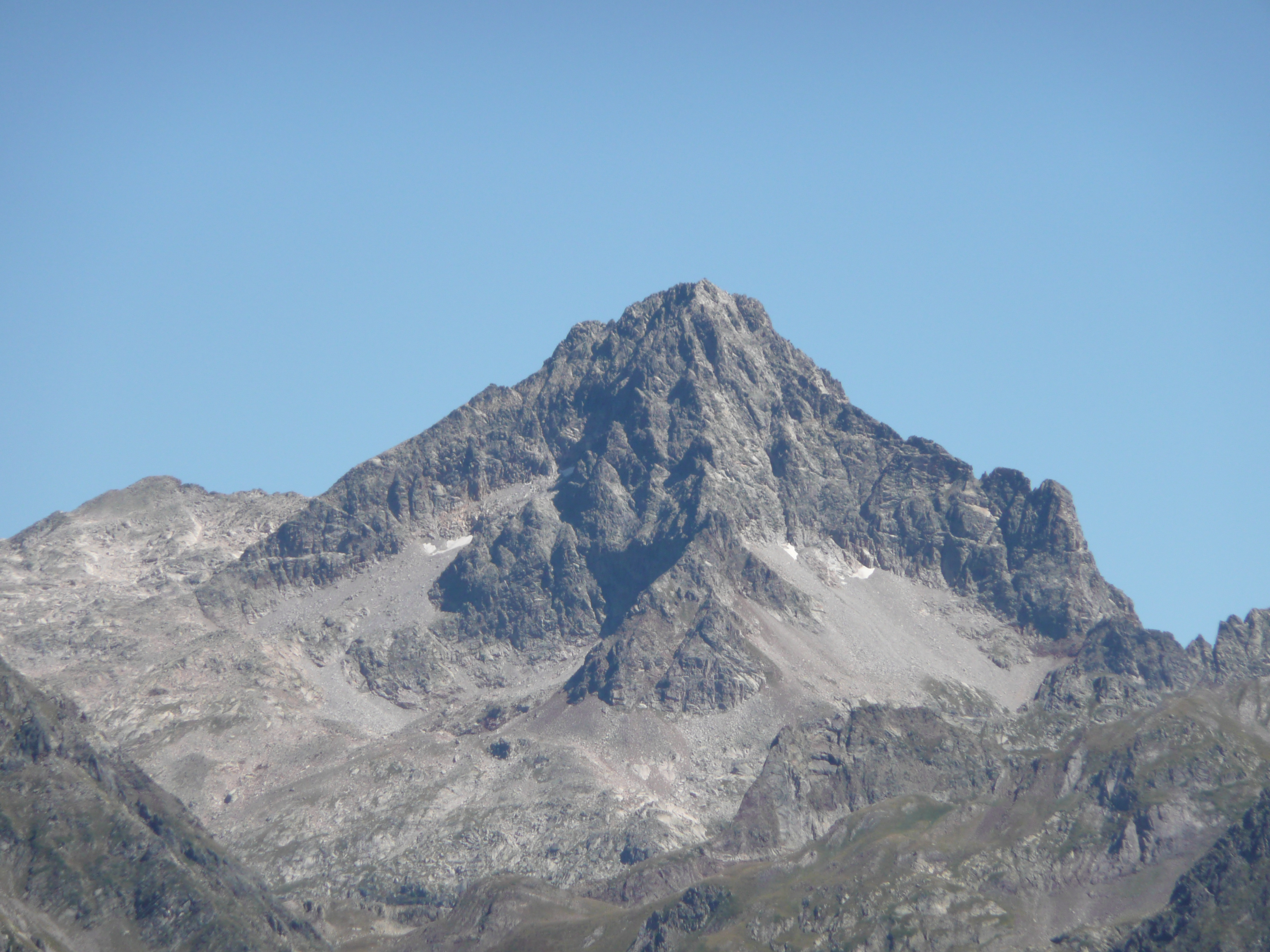 Pic Palas (2974m) as seen on the way down the Pic du Midi d'Ossau. French Pyrenees.